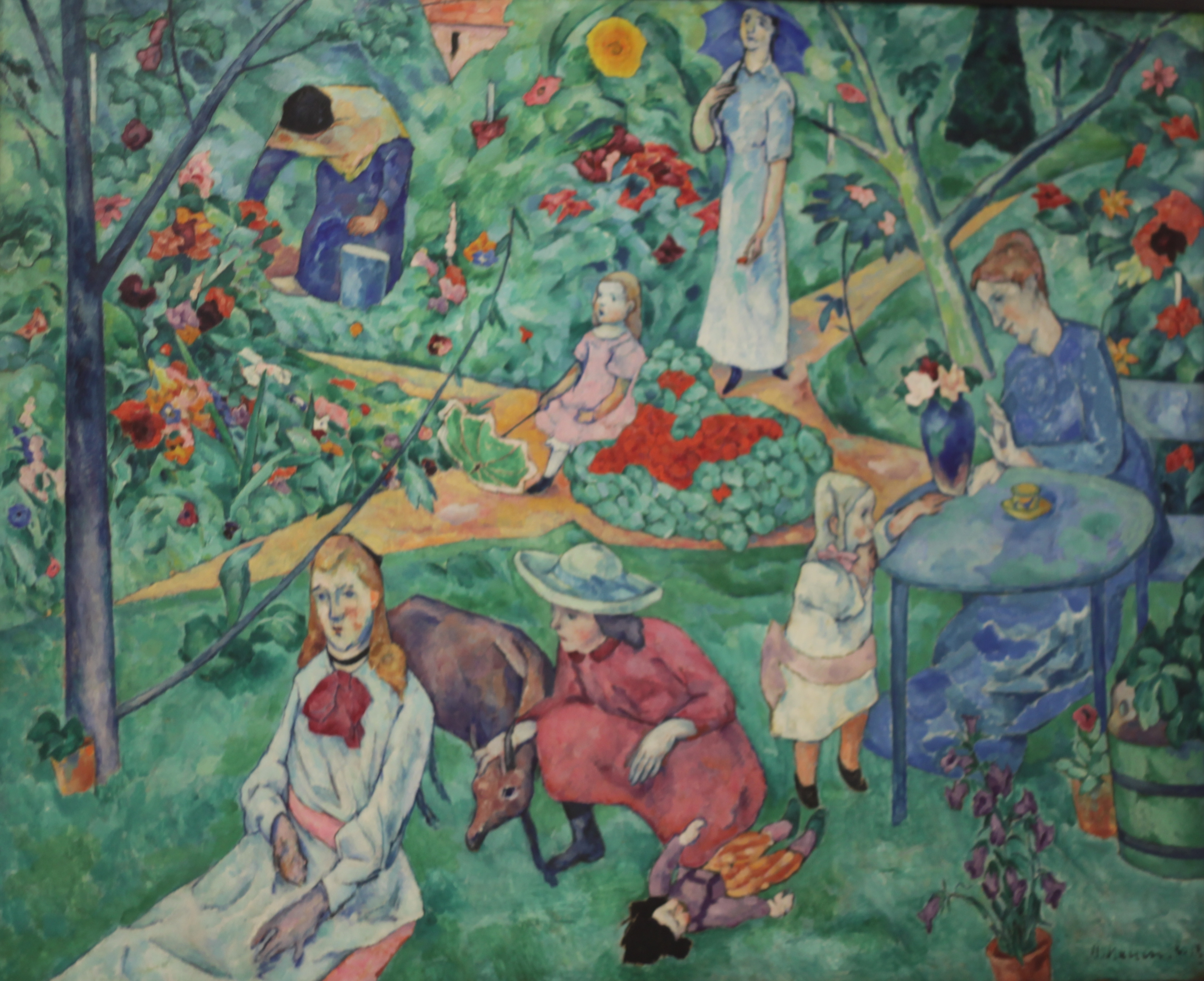 Heinrich Nauen Gartenbild (picture of a garden) 1913 Städtisches Museum Abteiberg Mönchengladbach, Germany